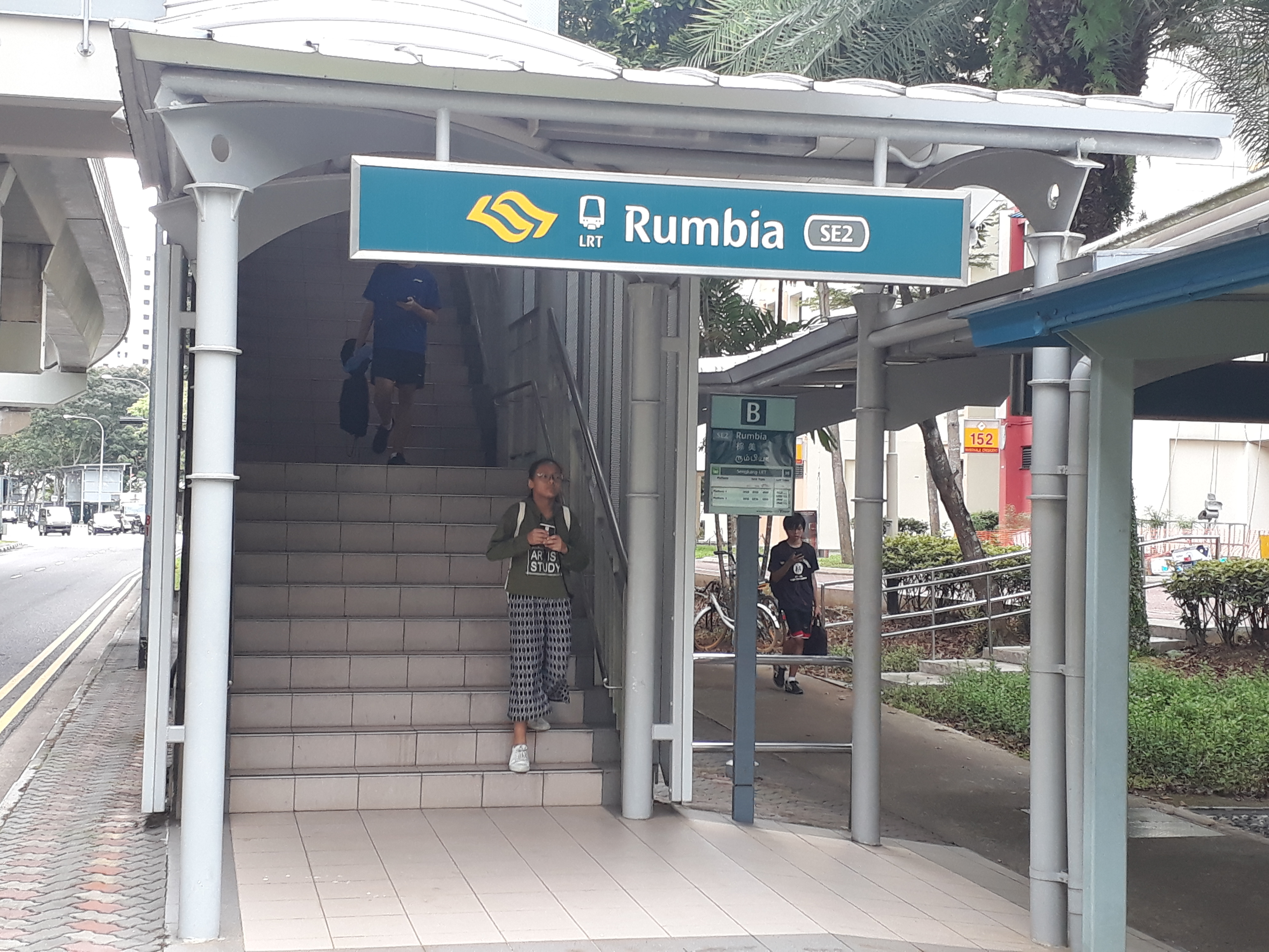 Exit B of Rumbia